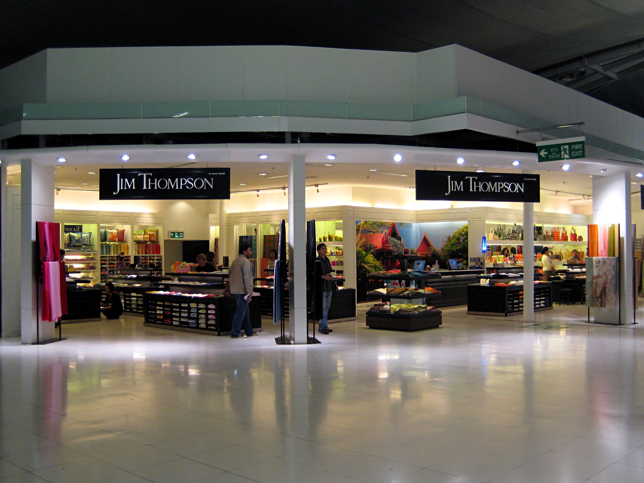 Jim Thompson silk shop Suvarnaphumi International Airport branch, Thailand.